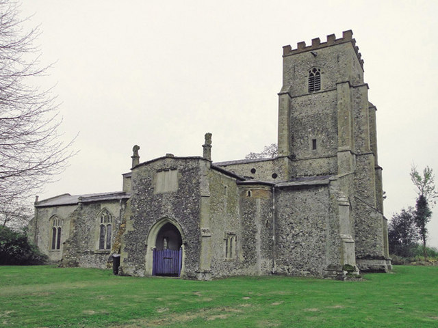 Bradenham St Mary's redundant church, near to Bradenham, Norfolk, Great Britain.